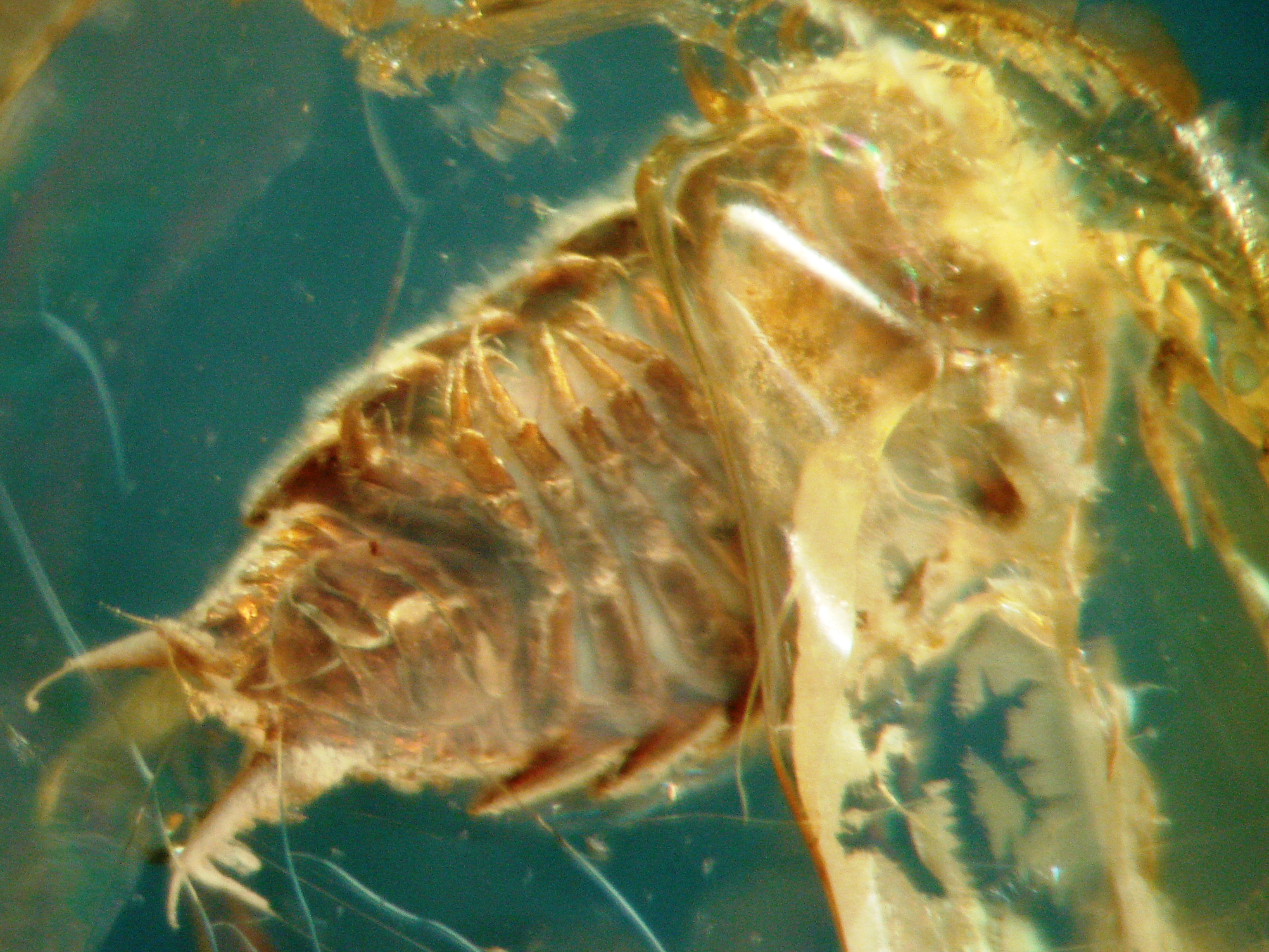 Baltic amber inclusions - 40-50 million years old - (Arthropoda, Malacostraca, Isopoda, ...?) - About 3 mm long.